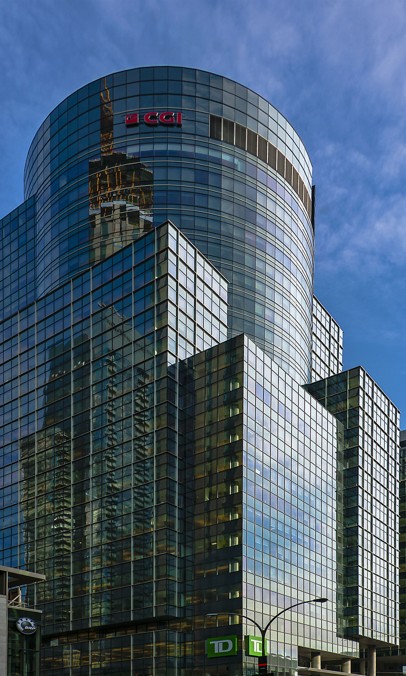 E-Commerce Building, on René-Lévesque Boulevard in downtown Montreal.